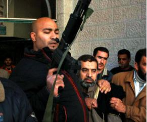 personal Photo